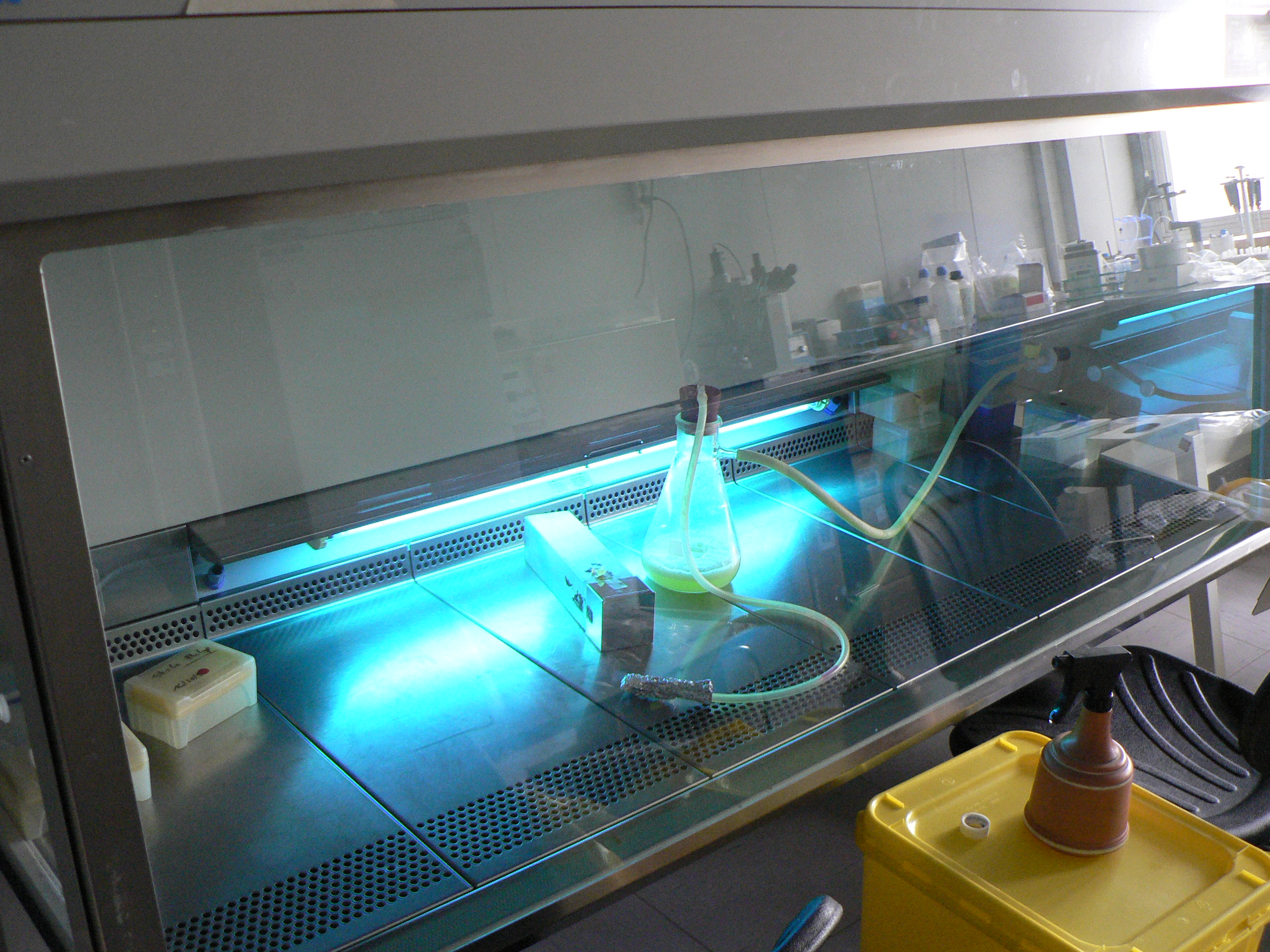 A laminar flow bench, with UV light used to decontaminate it when not used